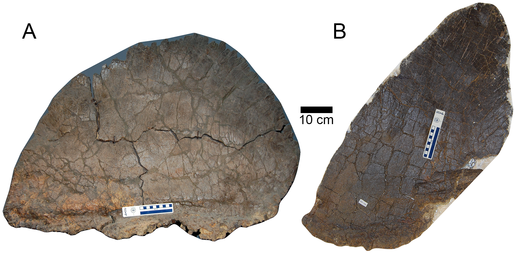 Sexual dimorphism in the plates of S. mjosi. (A) The largest wide morph plate (SMA 0018). (B) The largest tall morph plate (JRDI 5ES-552).